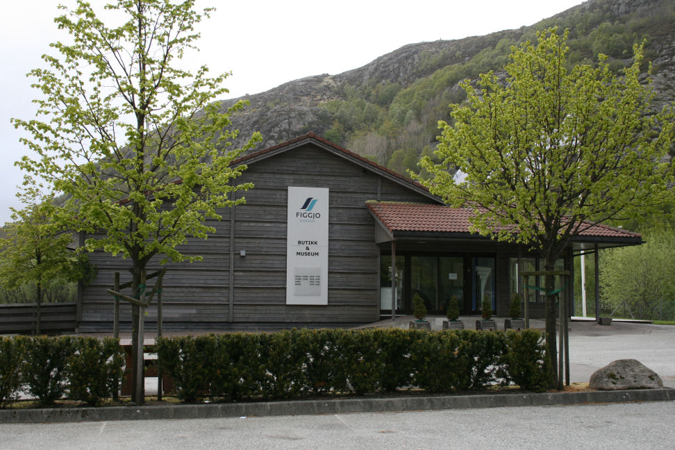 Figgjo museum (Figgjo china factory)